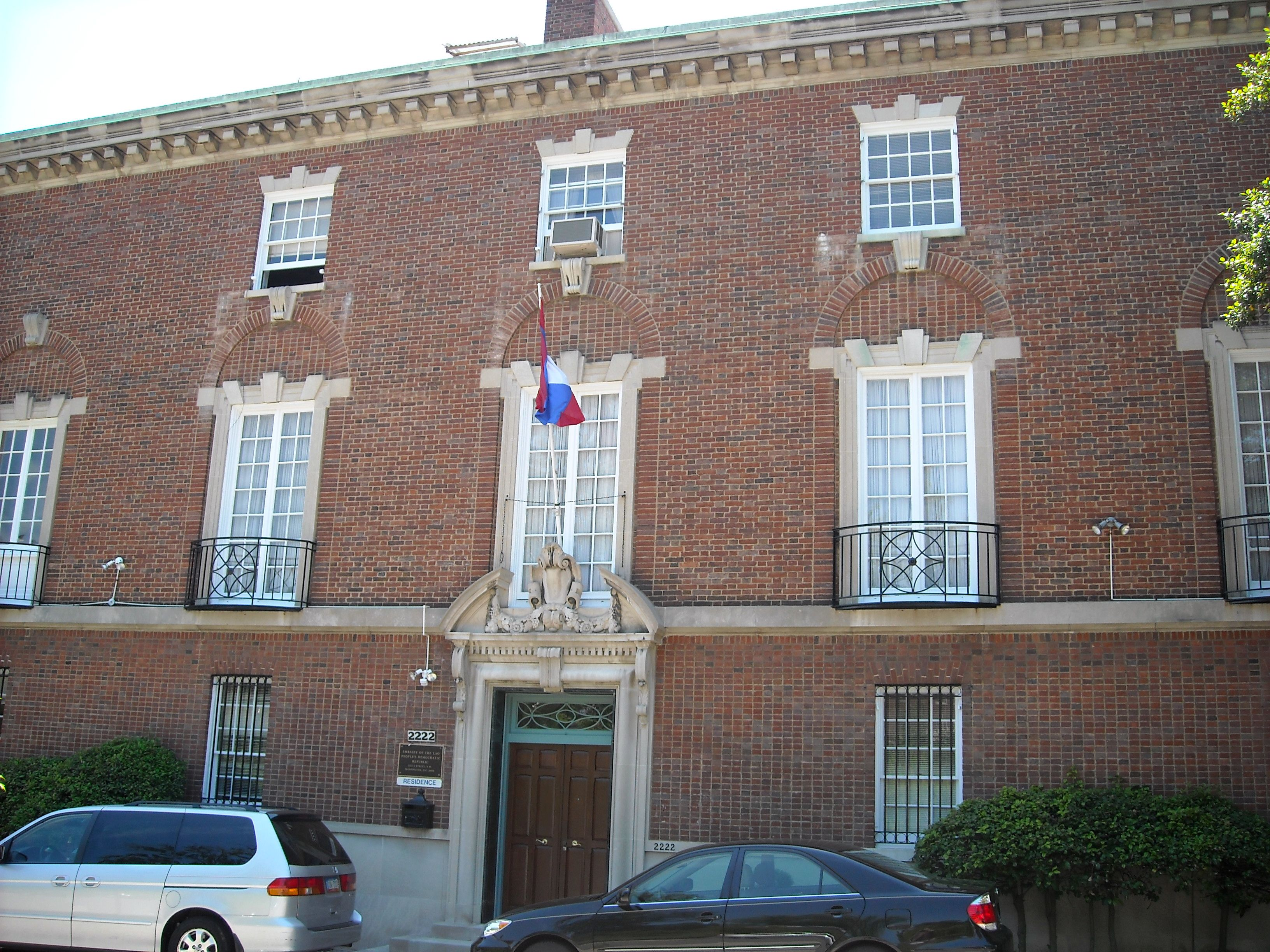 Embassy of Laos to the United States. Located in Washington, D.C.